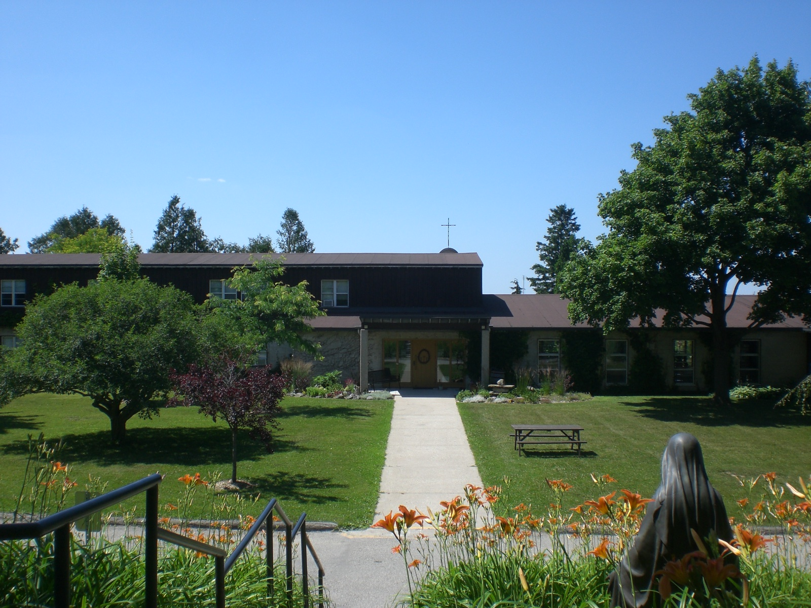 Main entrance to the Loyola House Retreat and Training Centre in the Ignatius Jesuit Centre, Guelph